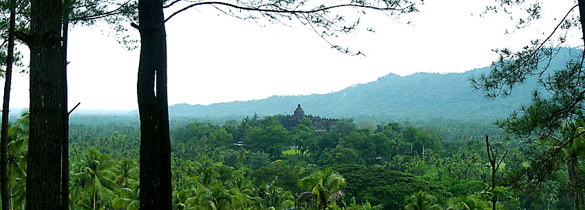 Borobudur and Kedu plain viewed from Dagi Hill, Central Java, Indonesia.